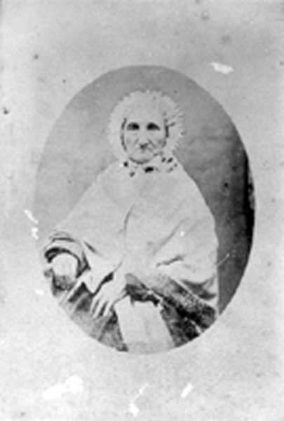 Catherine McDonald (nee Potaski) daughter of convict Joseph Potaski. Catherine was the first european born and baptised in Tasmania. Tasmanian Archive and Heritage Office.